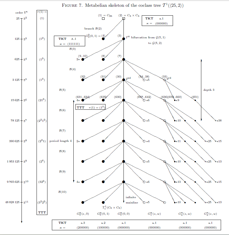 This diagram shows the PRUNED tree of finite METABELIAN 5-groups of coclass 1, i.e., of maximal class, and the isolated vertex C(25). Important vertices are labelled with their SmallGroups Library identifier in angle brackets. TTT means transfer target type. TKT means transfer kernel type. User:DanielConstantinMayer added png-file "Coclass1Tree5Groups"